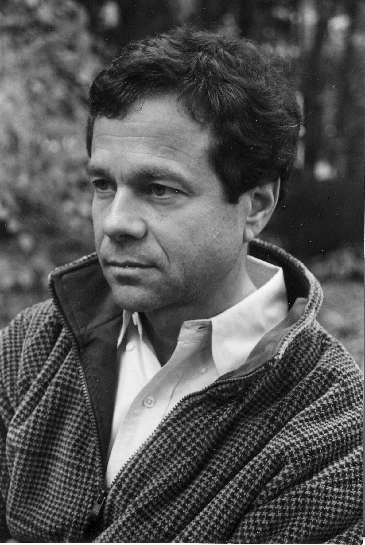 Alan Lightman, an American physicist, novelist and essayist, professor at the Massachusetts Institute of Technology.